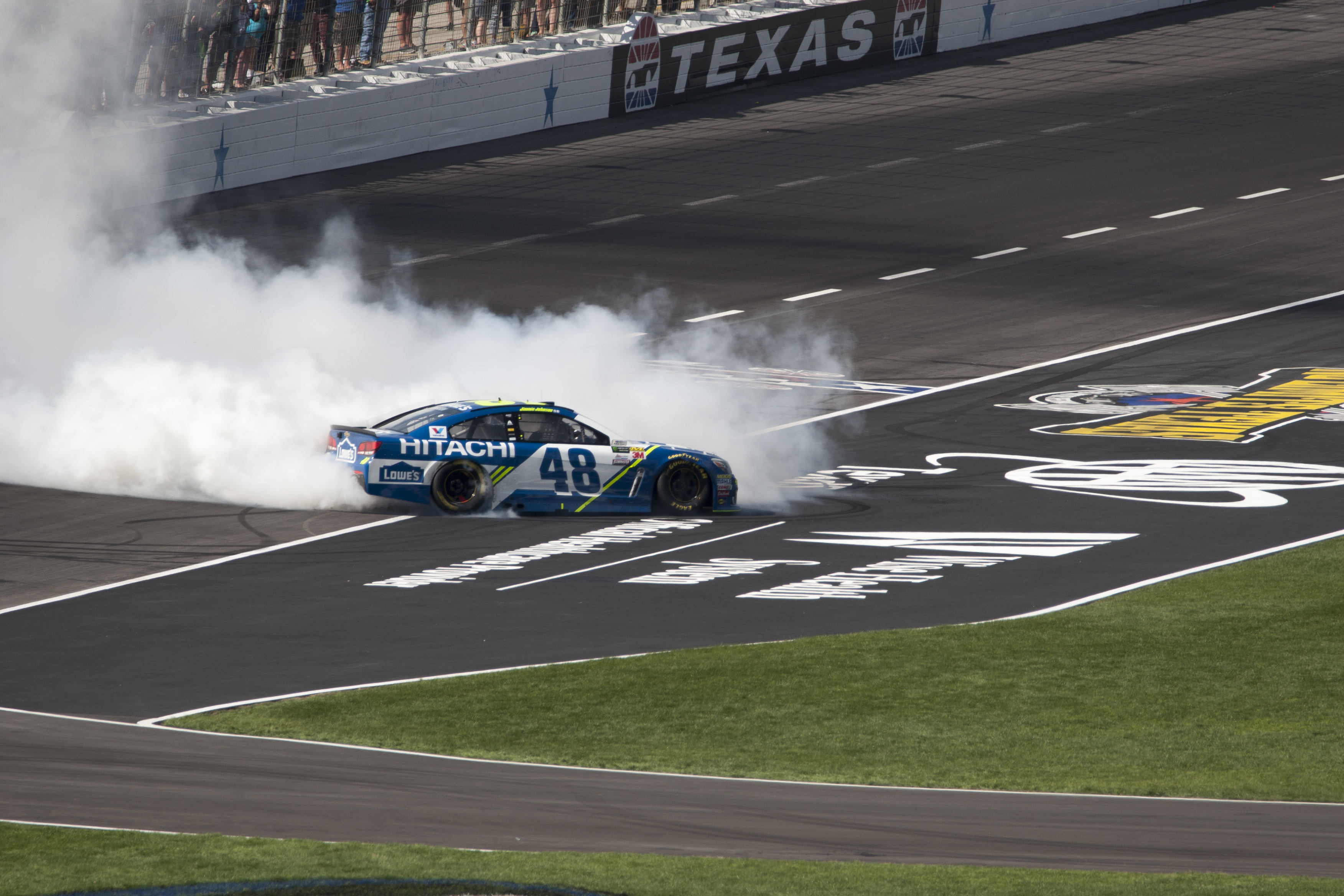 Jimmie Johnson performs a burnout after winning the O'Reilly Auto Parts 500 at Texas Motor Speedway in 2017.